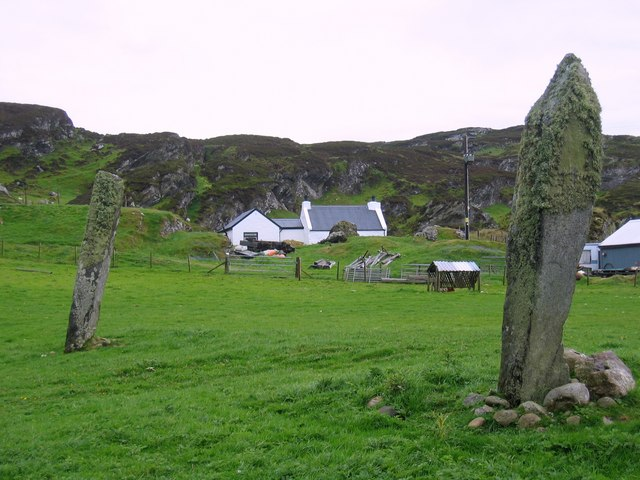 Fingal's Limpet Hammers A pair of tall and leaning standing stones colloquially named after implements used for prising limpets from the rocks. Probably a food source used locally since the Island was first colonised.